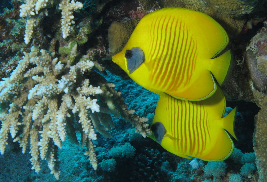 Masked butterflyfish at Abu Dabab Reefs, Red Sea, Egypt #SCUBA